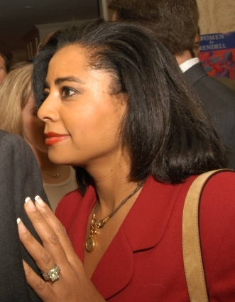 Chaka Fattah with wife Renee Chenault-Fattah